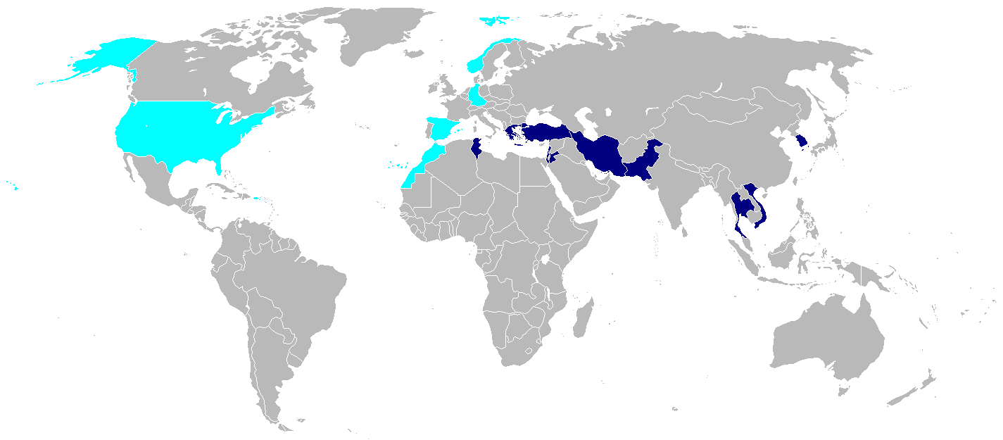 Current users of the M48 Patton in dark blue, former in light blue. Please note that Turkey is in dark blue although it doesn't use it anymore.